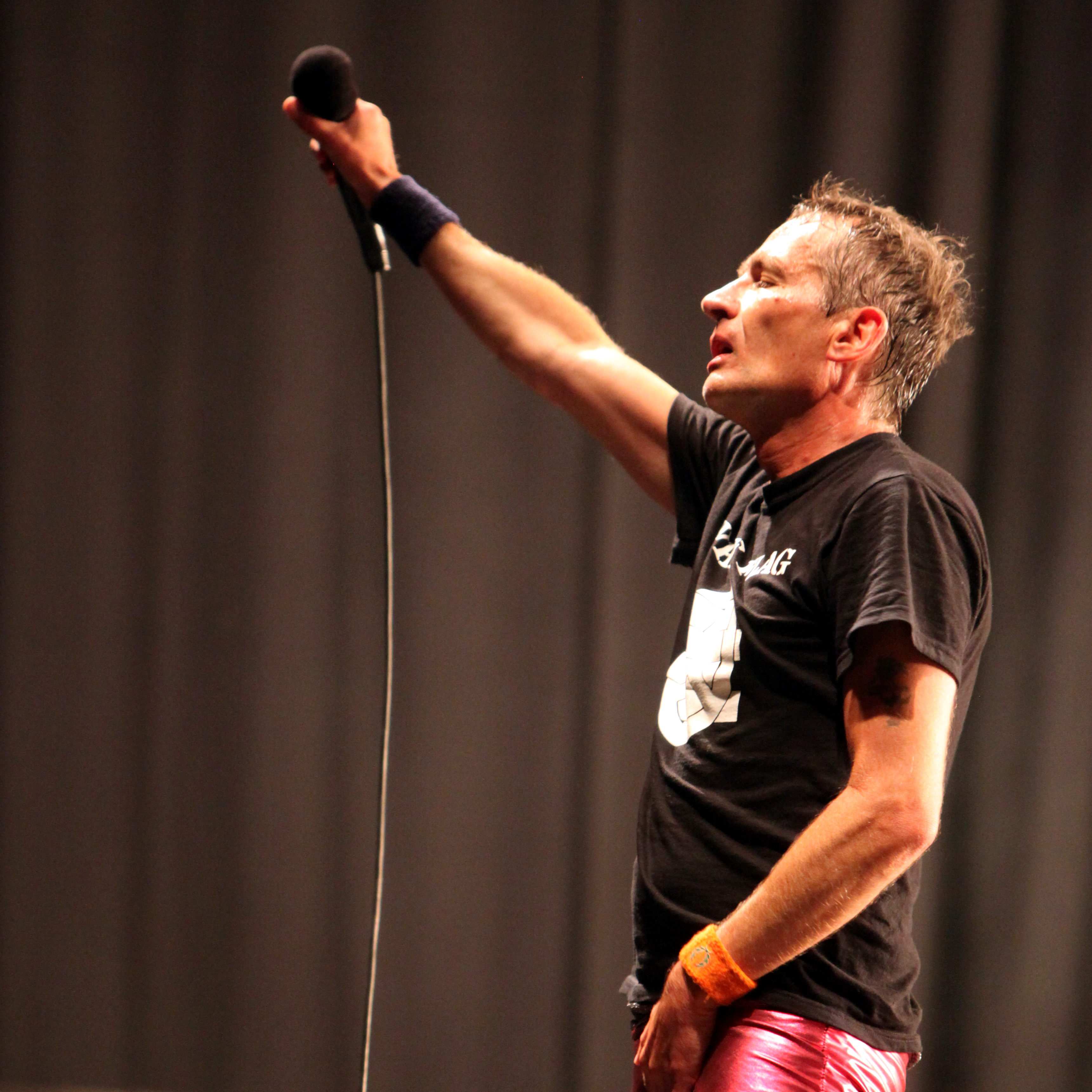 Didier Wampas (Les Wampas) at Balelec 2011